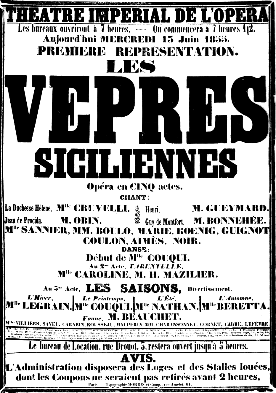 Giuseppe Verdi - Les Vêspres siciliennes - announcement for the first performance 1855